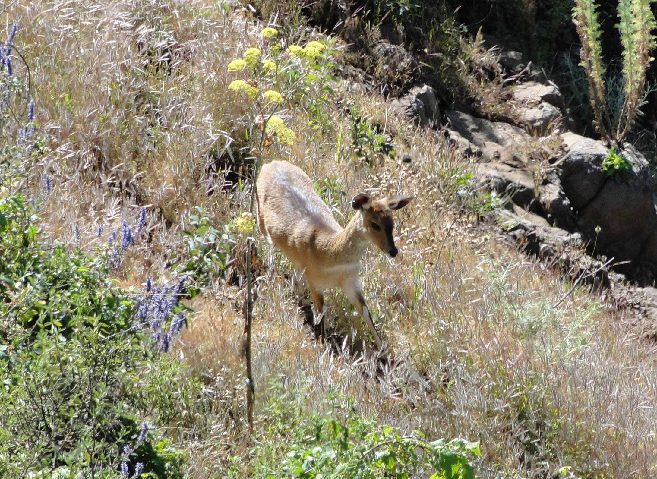 A Mountain nyala (Tragelaphus buxtoni) in the Simien Mountains National Park, Ethiopia